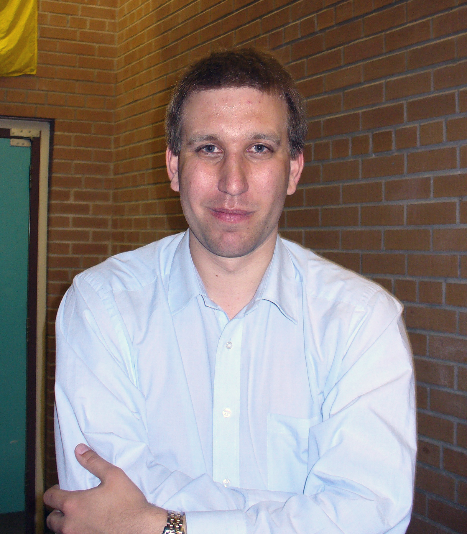 Astrophysicist Chris Lintott, after a lecture for the Perimeter Institute's Public Outreach series